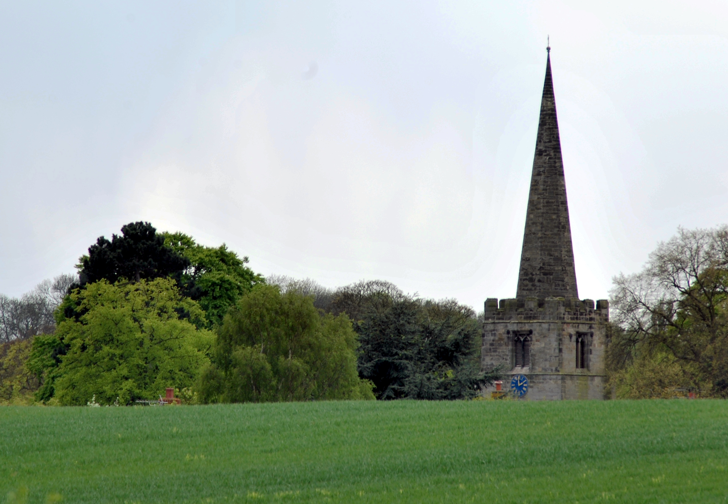 View across a field near Cotgrave Country Park,Nottinghamshire, to the west tower and spire of All Saints' parish church